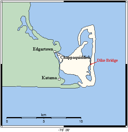 Map of Chappaquiddick